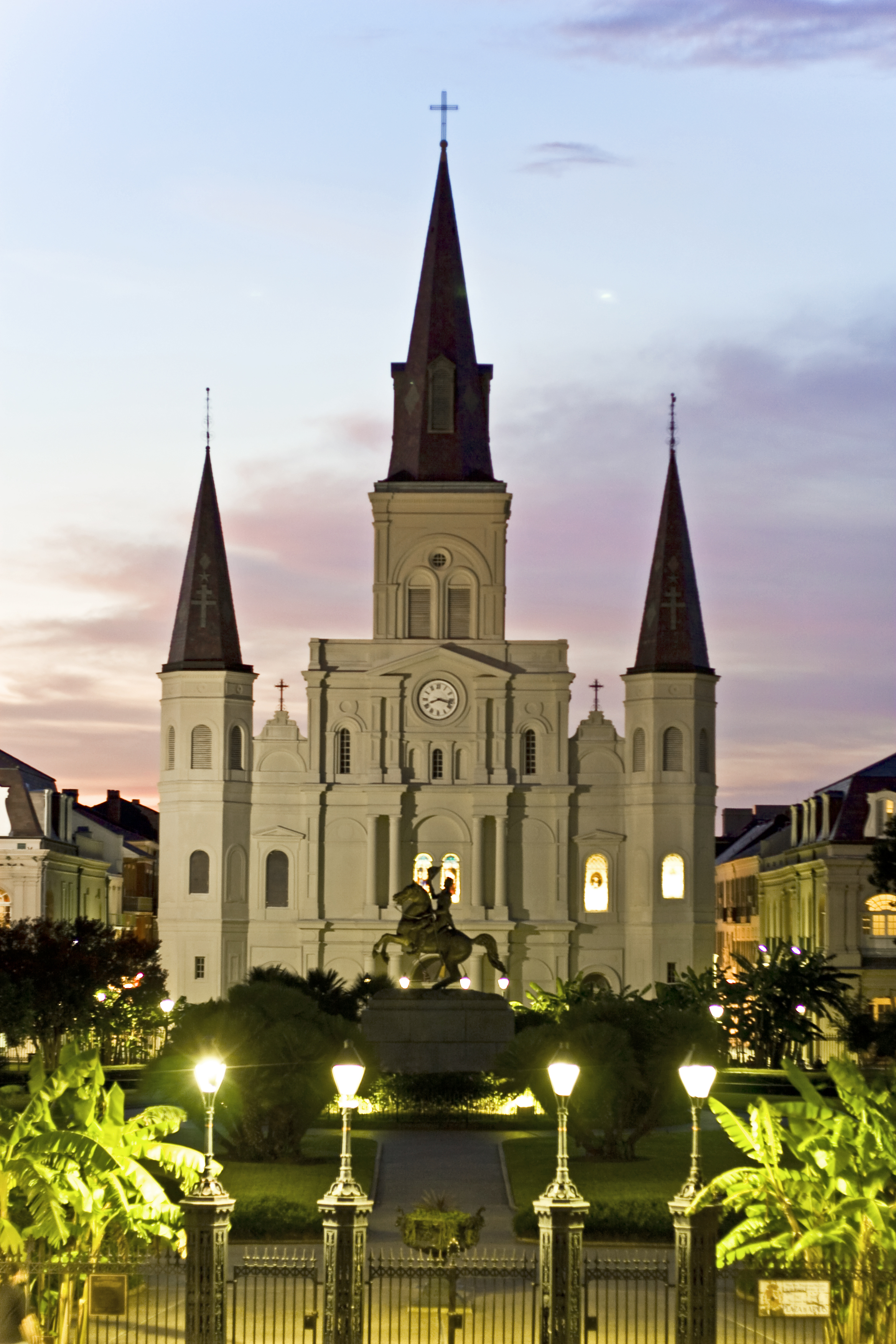 St. Louis Cathedral taken at sundown.